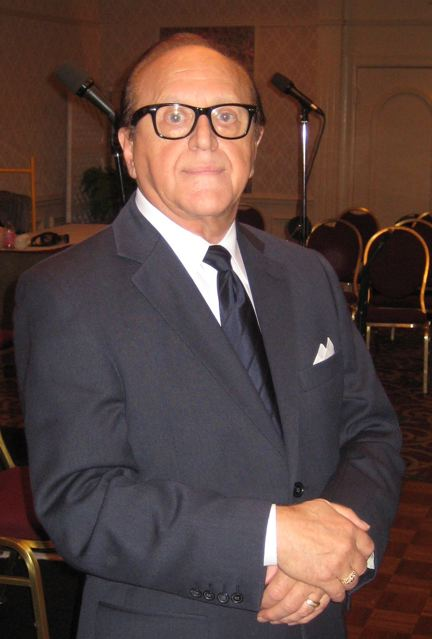 Eddie Carroll in character as Jack Benny.